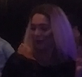 Бони photographed in Montréal, Québec, Canada.